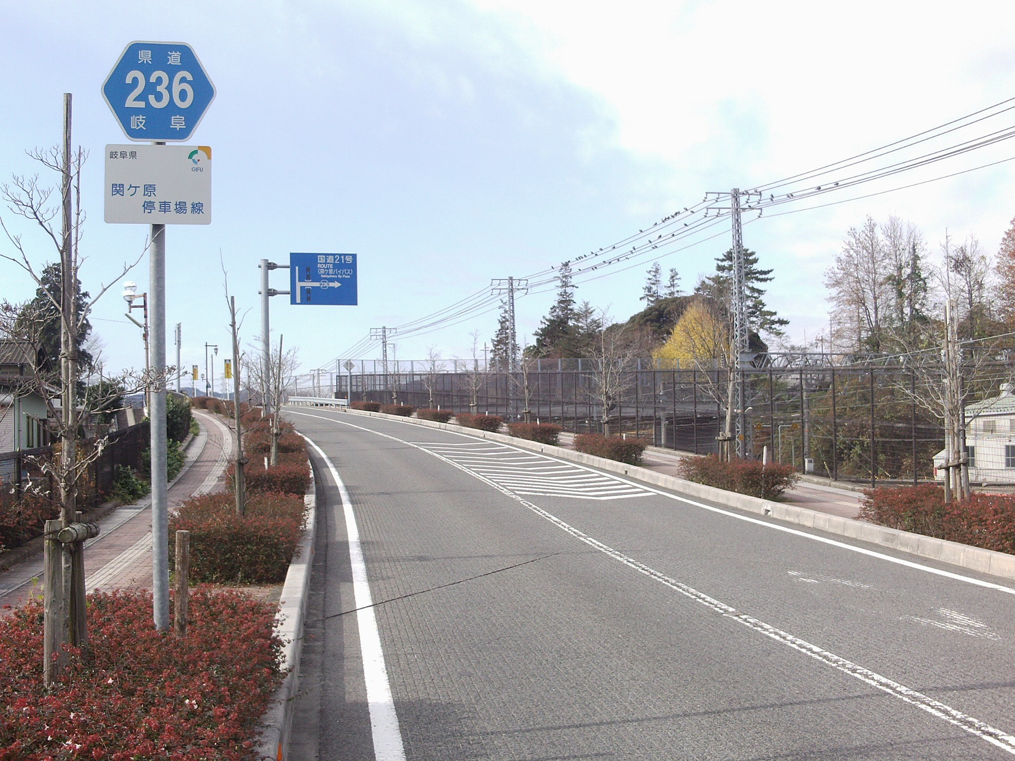 Gifu prefectural road No.236 in Sekigahara, Sekigahara-cho, Fuwa-gun, Gifu.